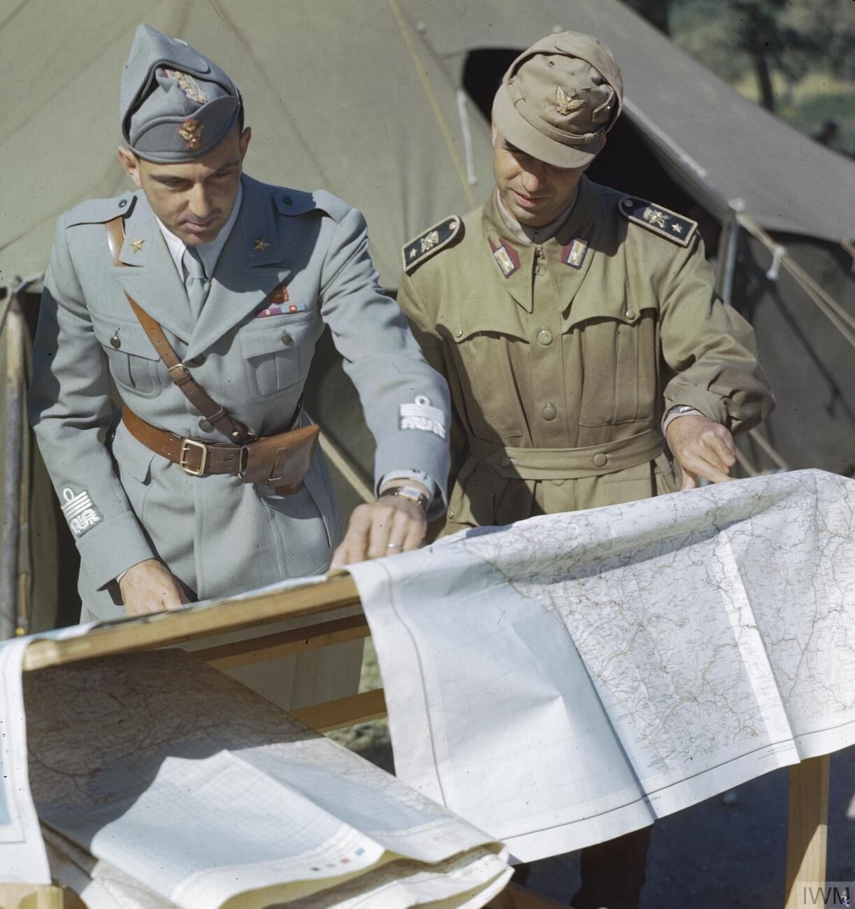 Hrh Prince Umberto of Italy, May 1944 HRH Prince Umberto conferring with officers over a map table at an Italian camp during his visit to the Italian Corps of Liberation, Sparanise, Italy.